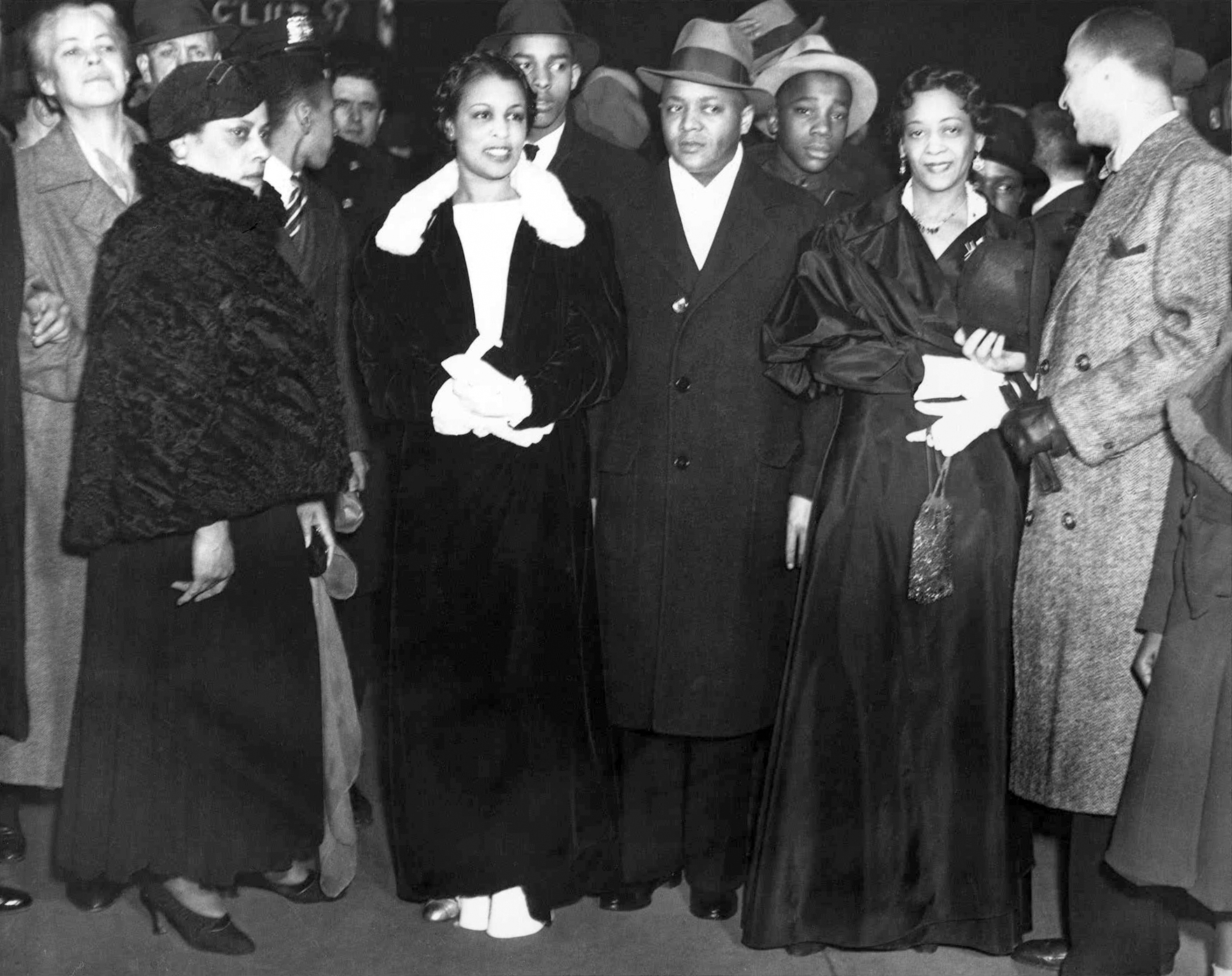 Photograph of opening-night audience for the Federal Theatre Project production of Macbeth at the Lafayette Theatre Rose McClendon, co-director of the Negro Theatre Unit of the Federal Theatre Project, is second from right